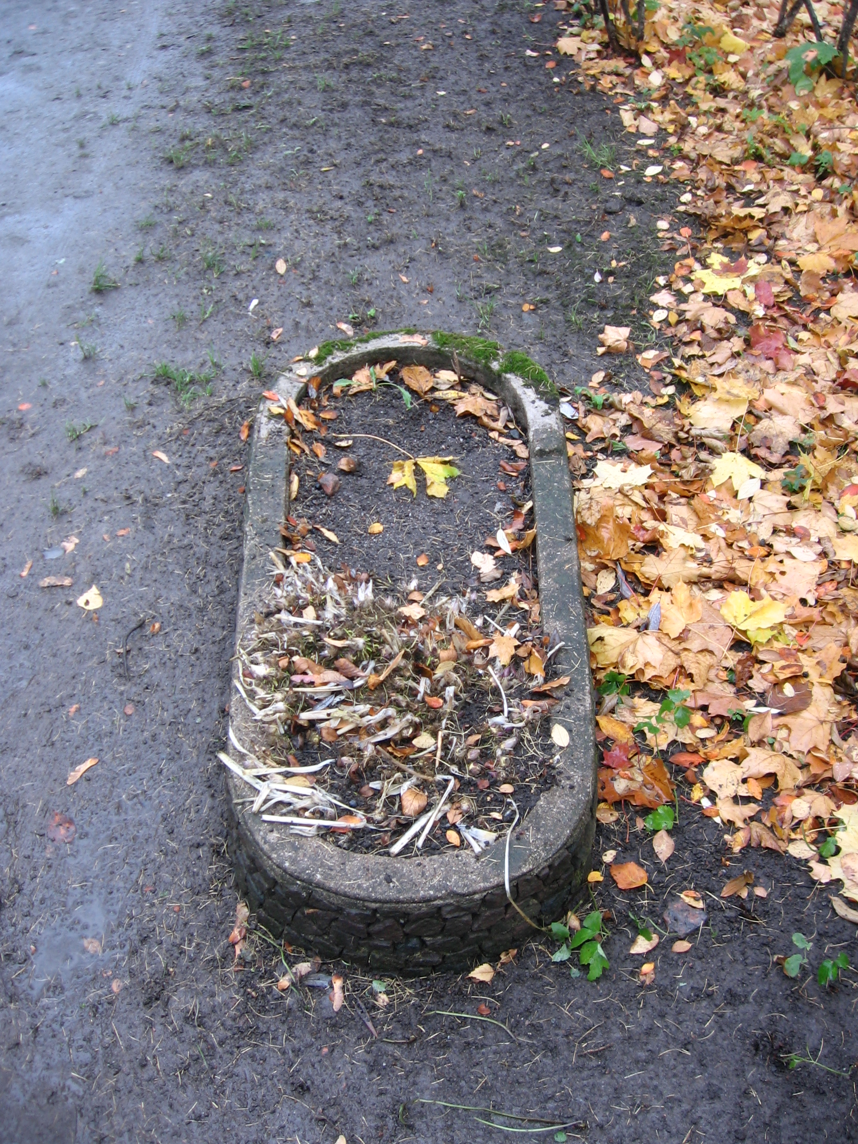 Grave of Anatoly Faresov